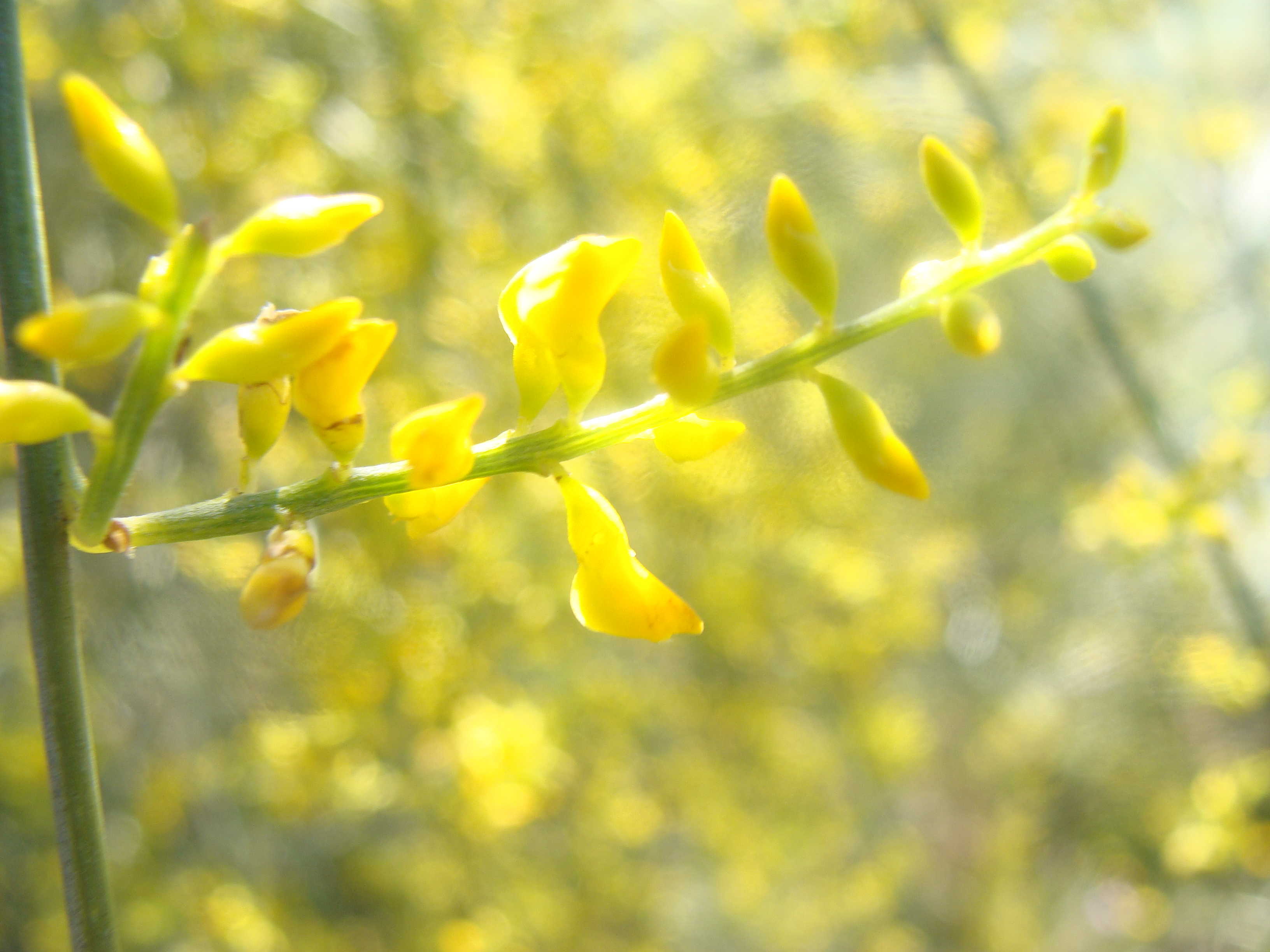 Retama sphaerocarpa, in the National Park of Monfragüe, Cáceres, Extremadura, Spain.